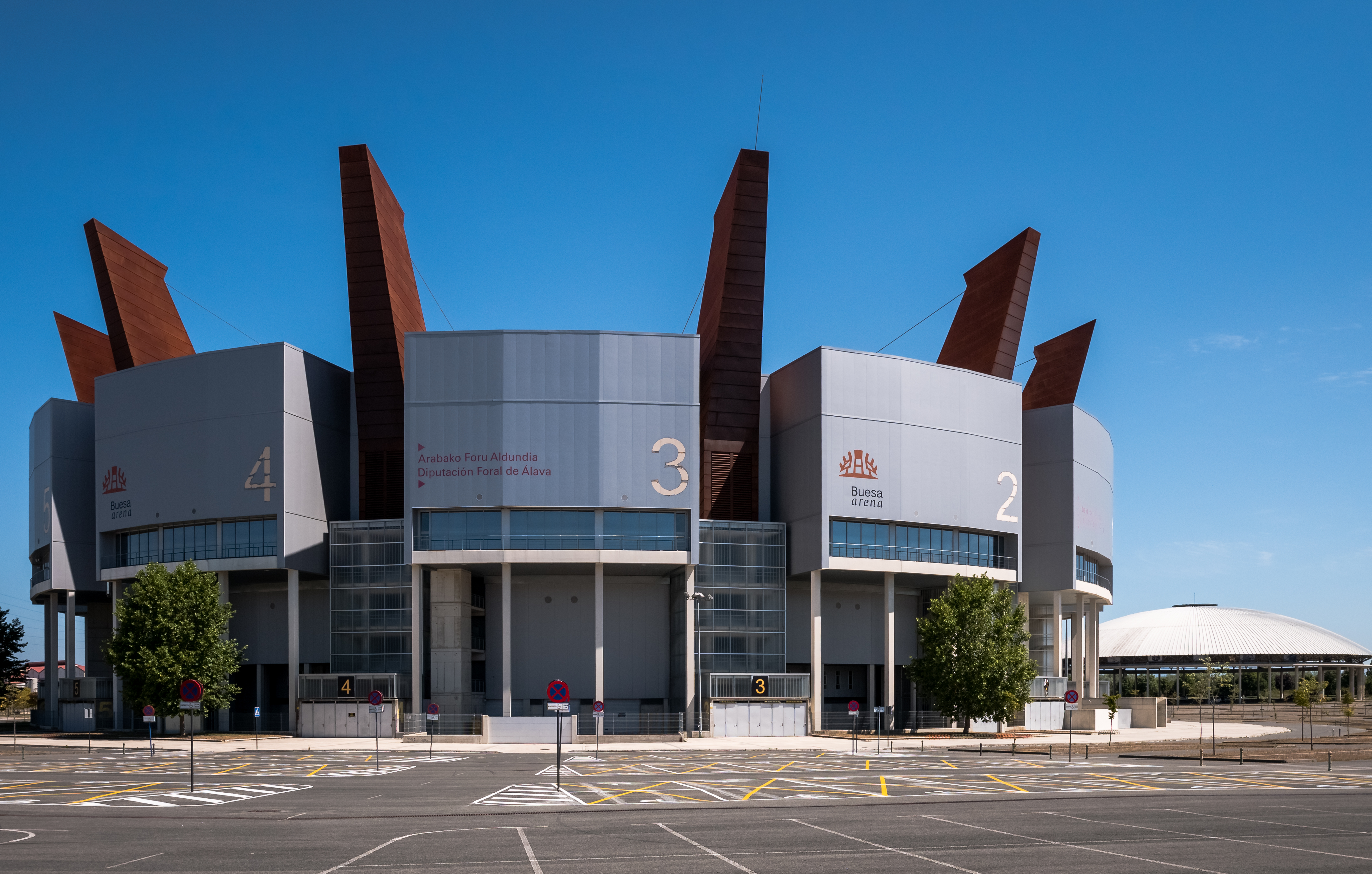 Basketball venue "Fernando Buesa Arena" in Vitoria-Gasteiz, Basque Country, Spain